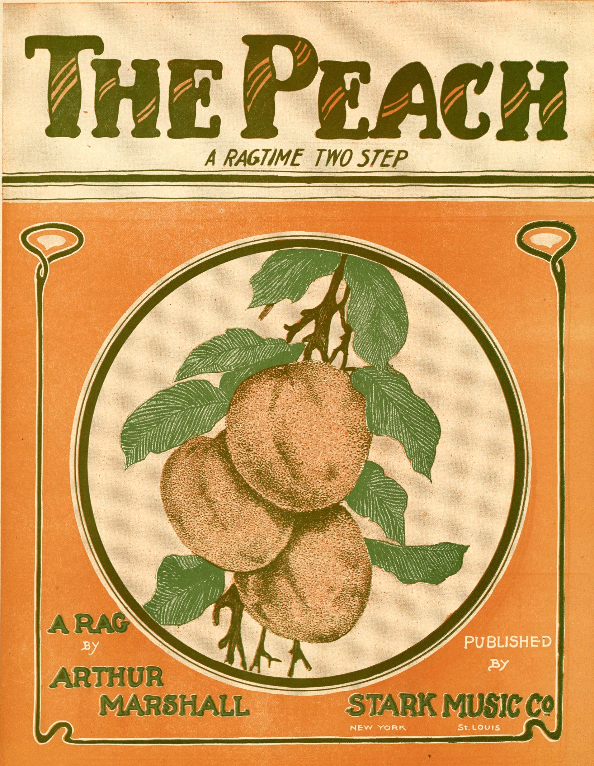 The Peach, 1908